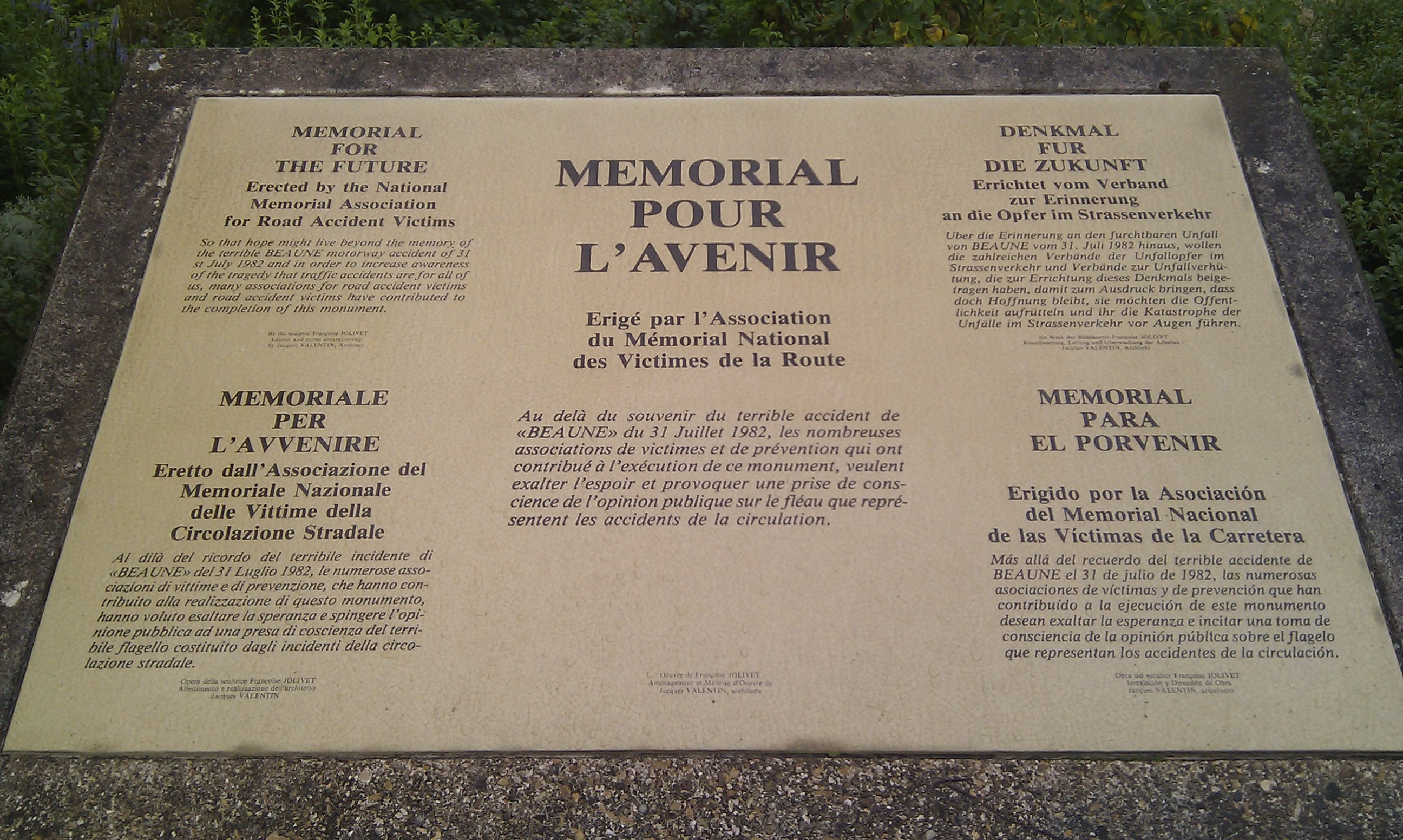 "Memorial for the Future", Curney rest area near Beaune, Côte-d'Or, France